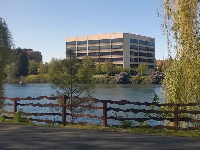 Headquarters of the Red Lion Hotels Corporation in Spokane, Washington.